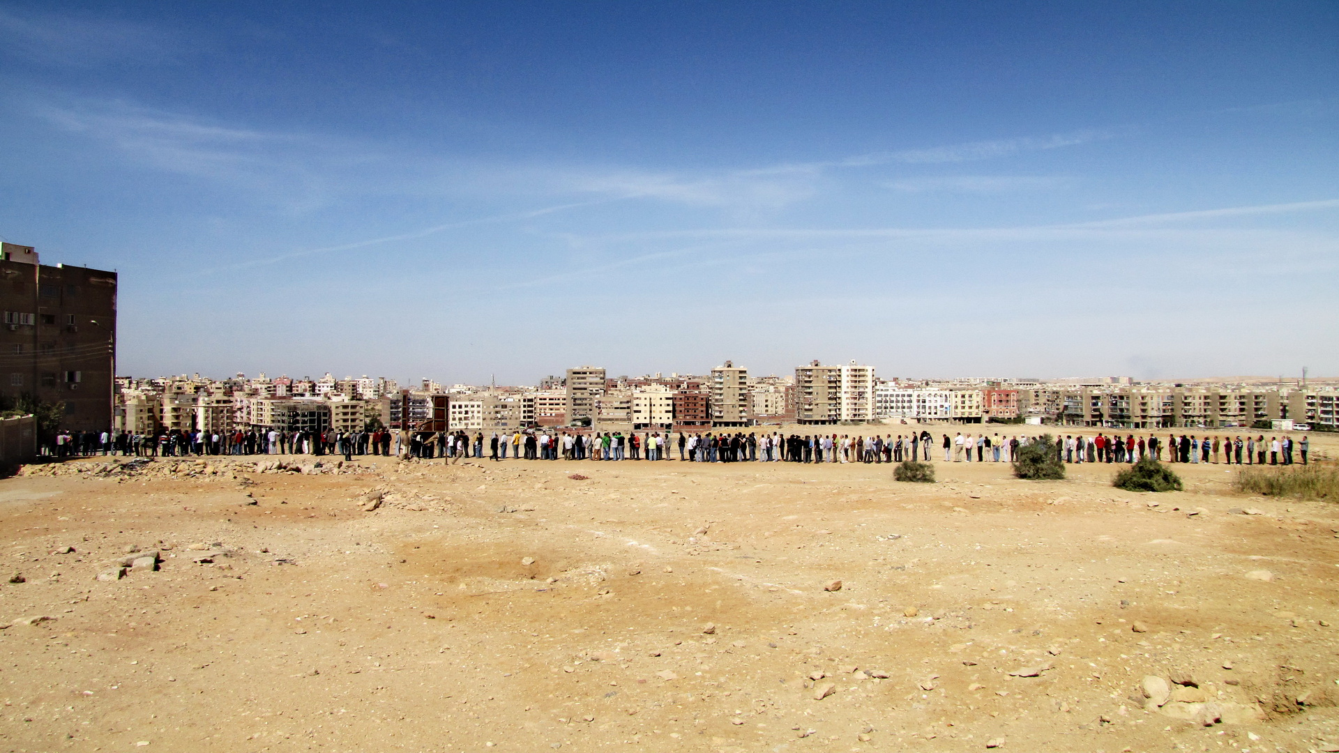 The men's line during the 2011 constitutional referendum in Egypt in the relatively up-scale Mokattam hill, a neighborhood of Cairo. The hill is not yet fully developed, and the queue was so long it extended from the polling place within the built-up area out into the desert. Opposite the men's queue, well within the built-up area was another queue for women.